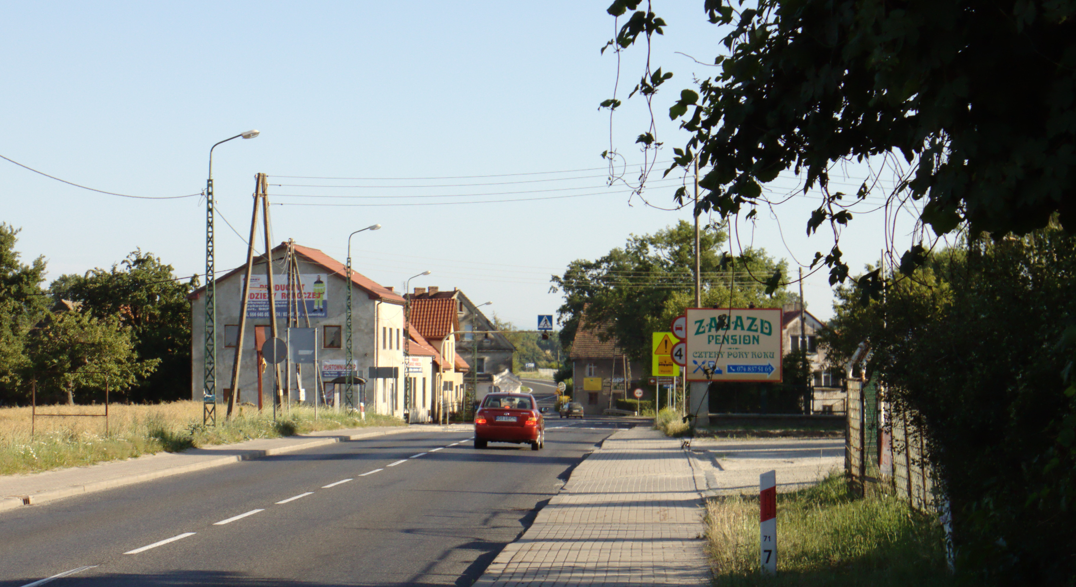 Western part of the town of Przerzeczyn-Zdrój, near the international road (Prague-Wrocław). Lower Silesian Voivodeship, Poland